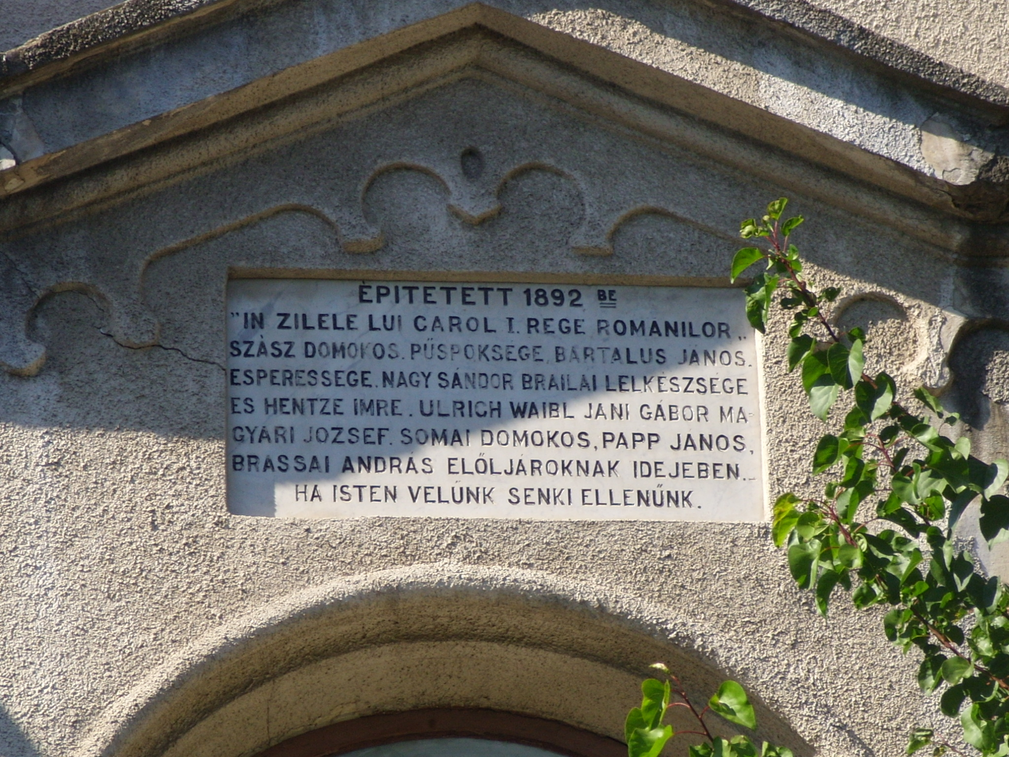 Reformed Hungarian Church (plaque) - Brăila Text: Built in 1892 „In the days of Carol I King of Romania” During the times of bishop Szász Domokos, dean Bartalus János, father Nagy Sándor, and provosts Hentze Imre, Ulrich Waibl, Jani Gábor, Magyari Jozsef, Somai Domokos, Papp János, Brassai András. If God is with us, nobody is against us